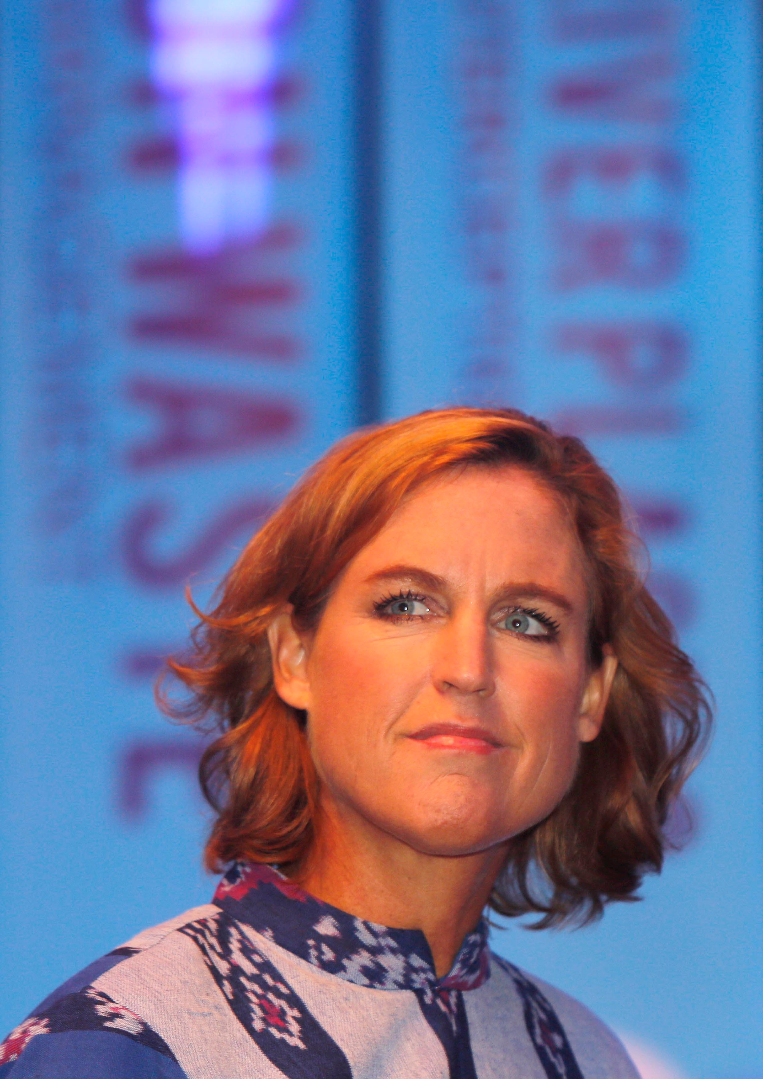 Named Best Green CEO by Warta Ekonomi in 2017, her first year as President Director of Danone AQUA, Corine Tap has continued the company’s tradition of promoting health, both physical and environmental. Established in 1973 and headquartered in Jakarta, Danone AQUA is Indonesia’s largest bottled mineral water and beverages company.